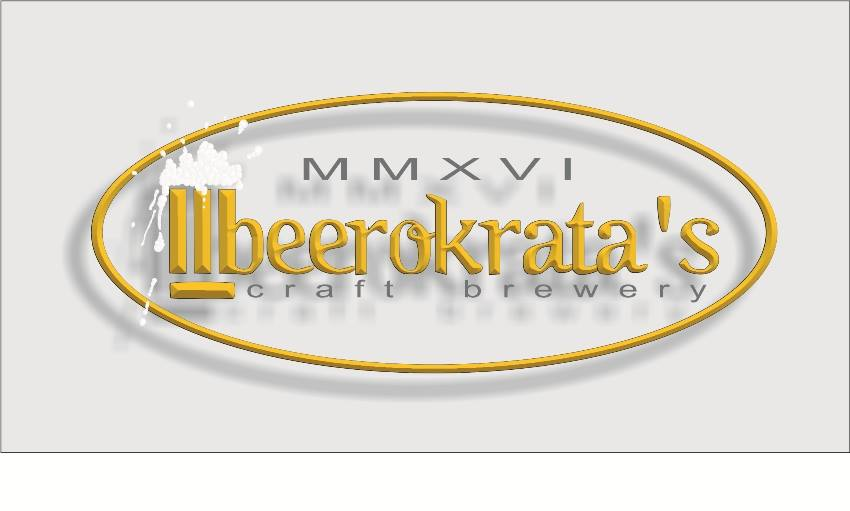 logo beerokata